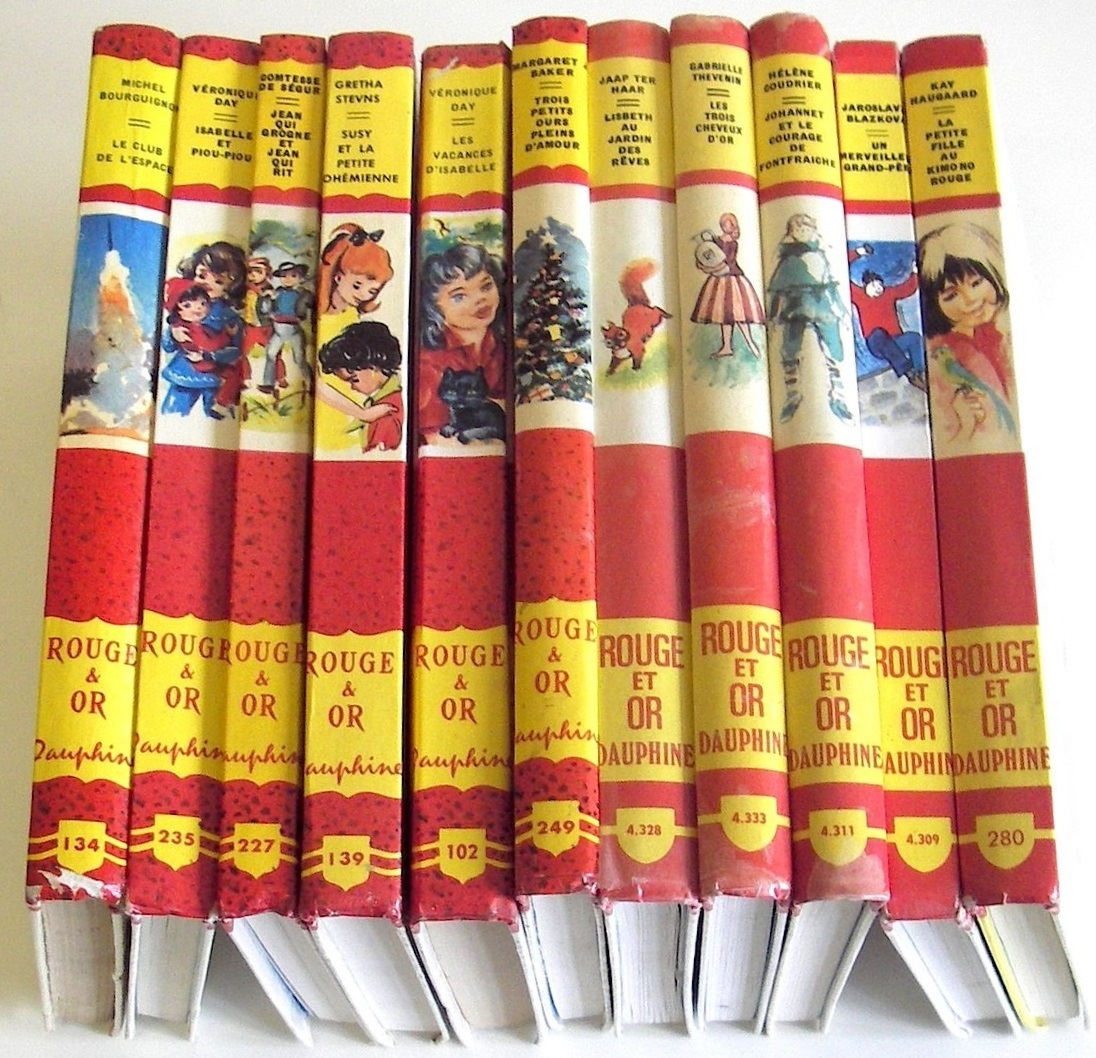 Books, "Rouge et or", G.P. Puiblisher